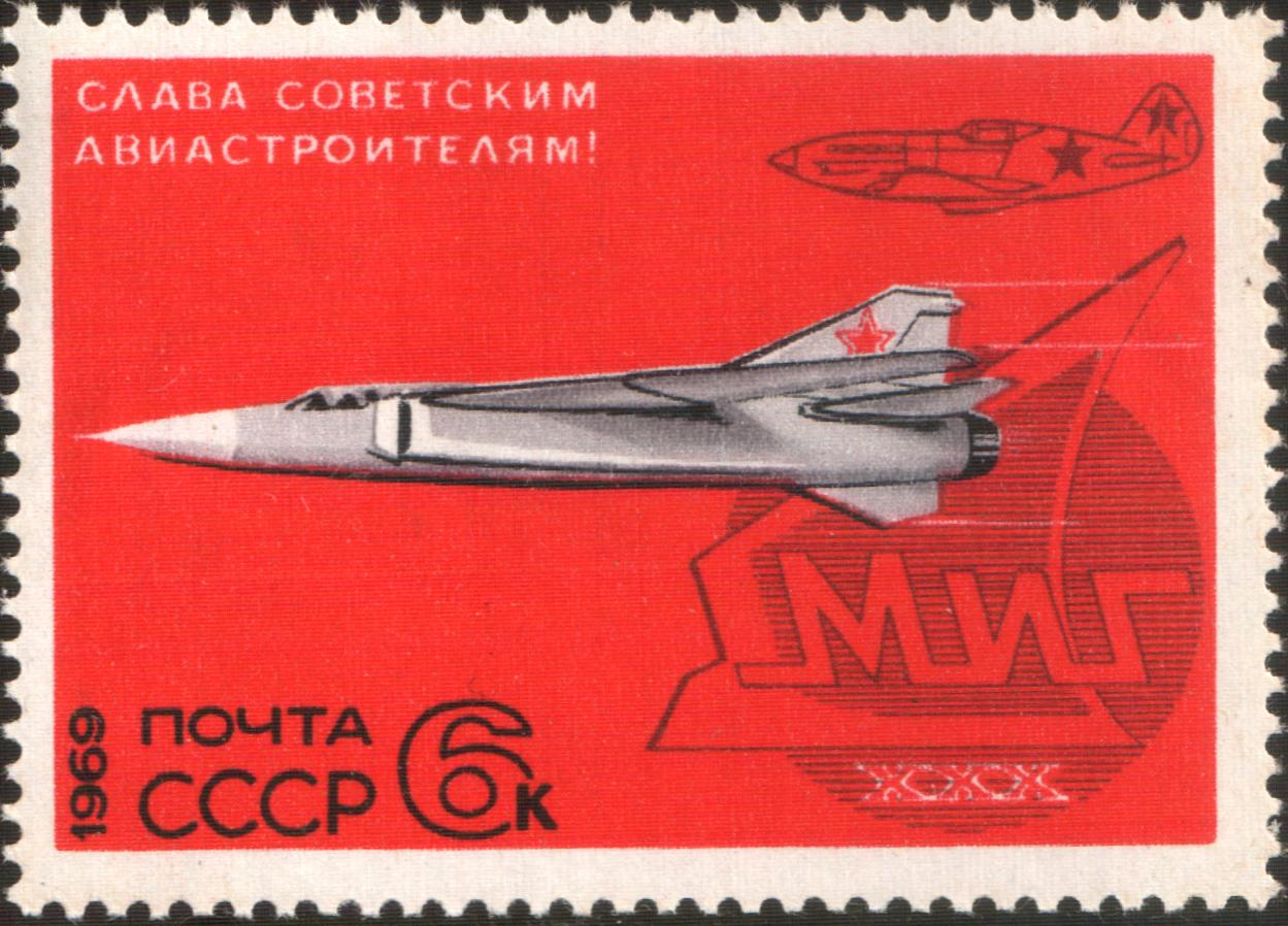 USSR stampː MiG Jet and First MiG Fighter Aircraft. MiG Emblem. Seriesː Glory to the Soviet Aircraft Builders! 30 Years of MiG Aircraft